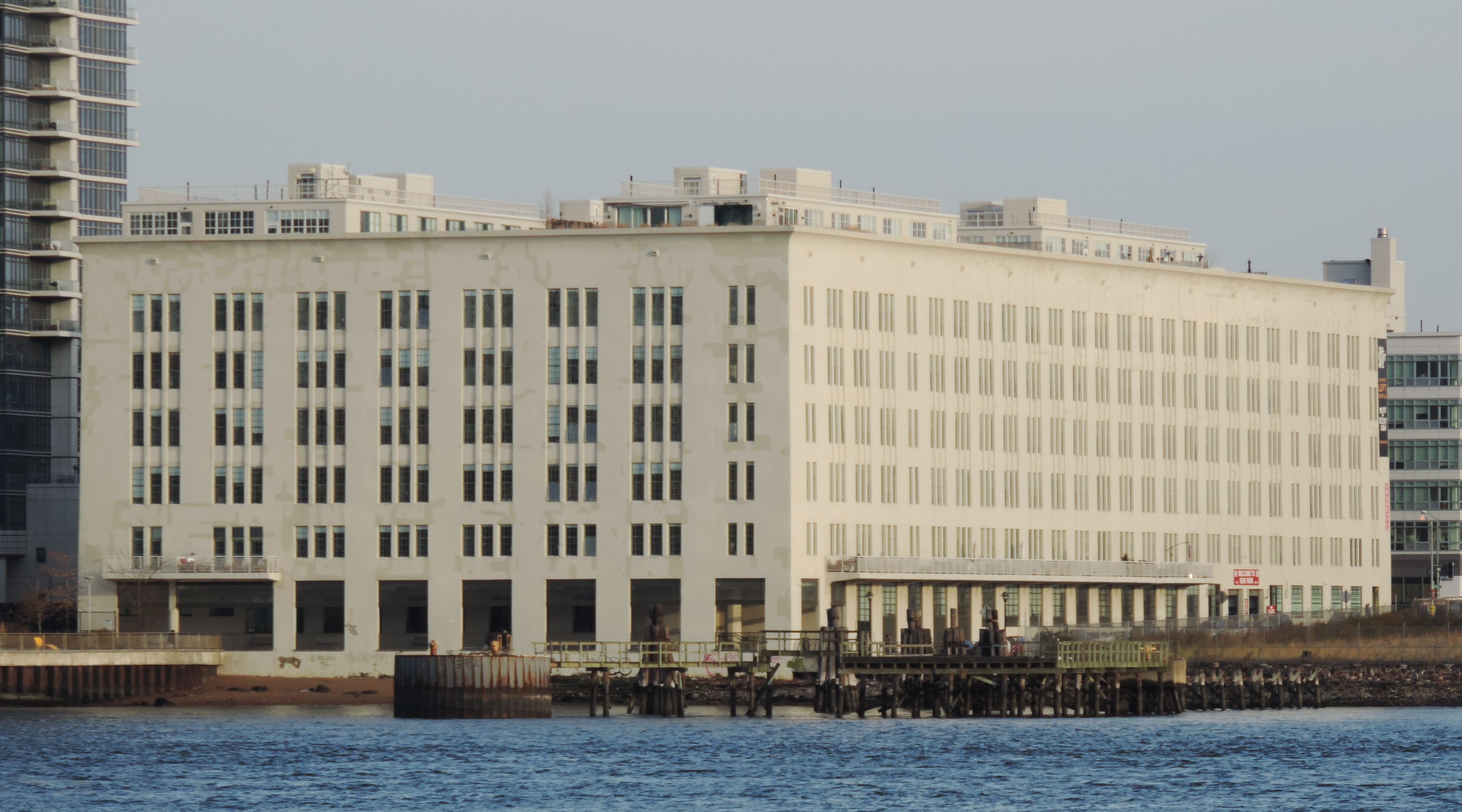 Looking east, zoomed, at former warehouse across the river.